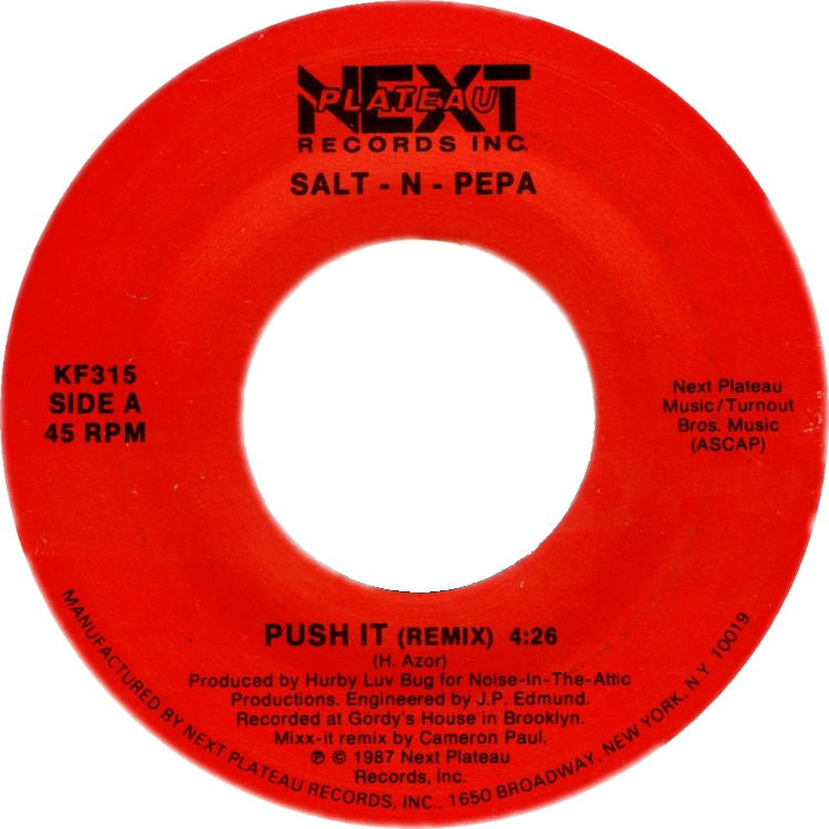 "Push It (Remix)" by Salt-n-Pepa; A-side label of US vinyl single